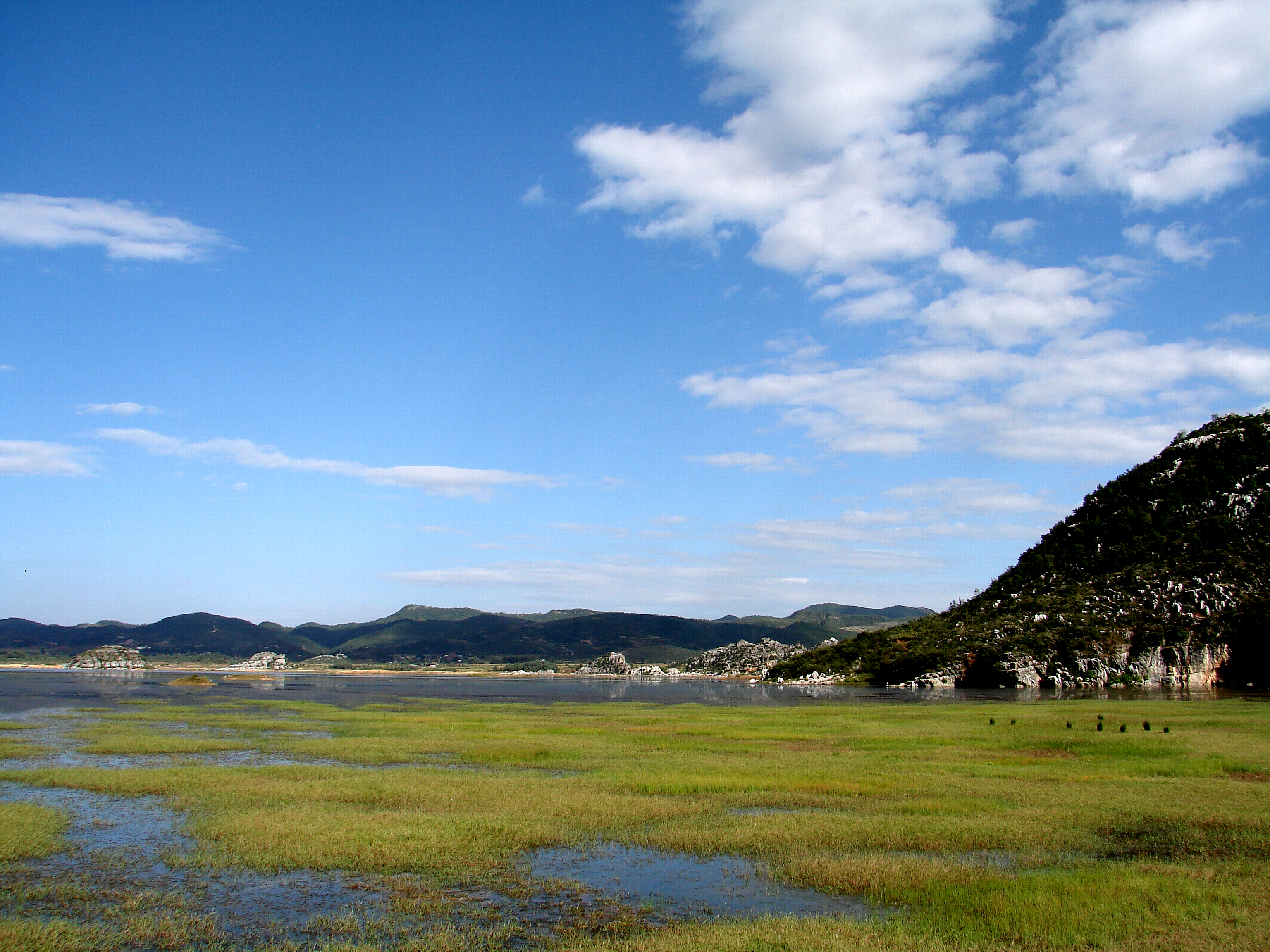 October 5, 2009, shooting in Qujing Haifeng wetlands.